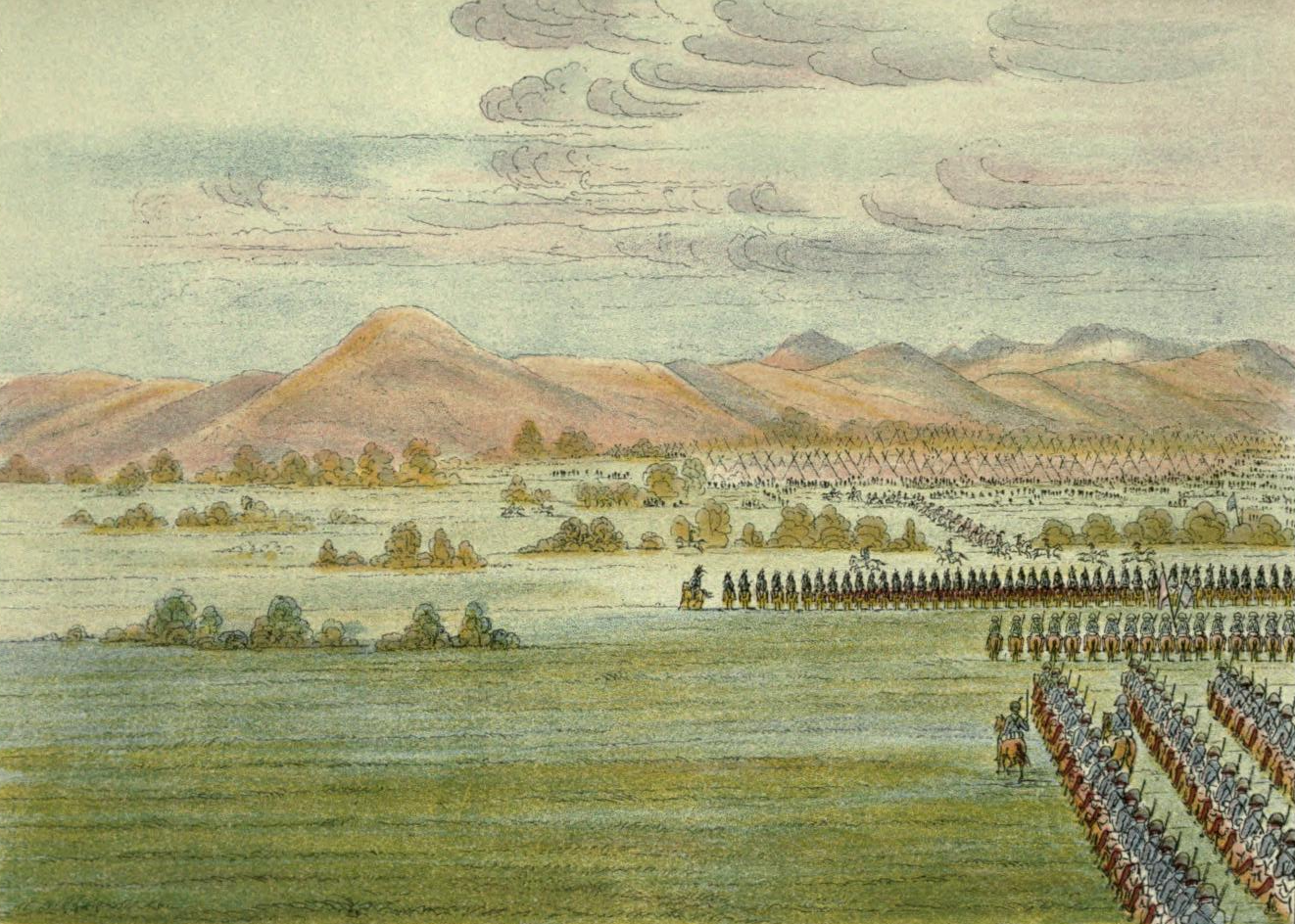 First Dragoons arrive at Comanche Village, 1834.